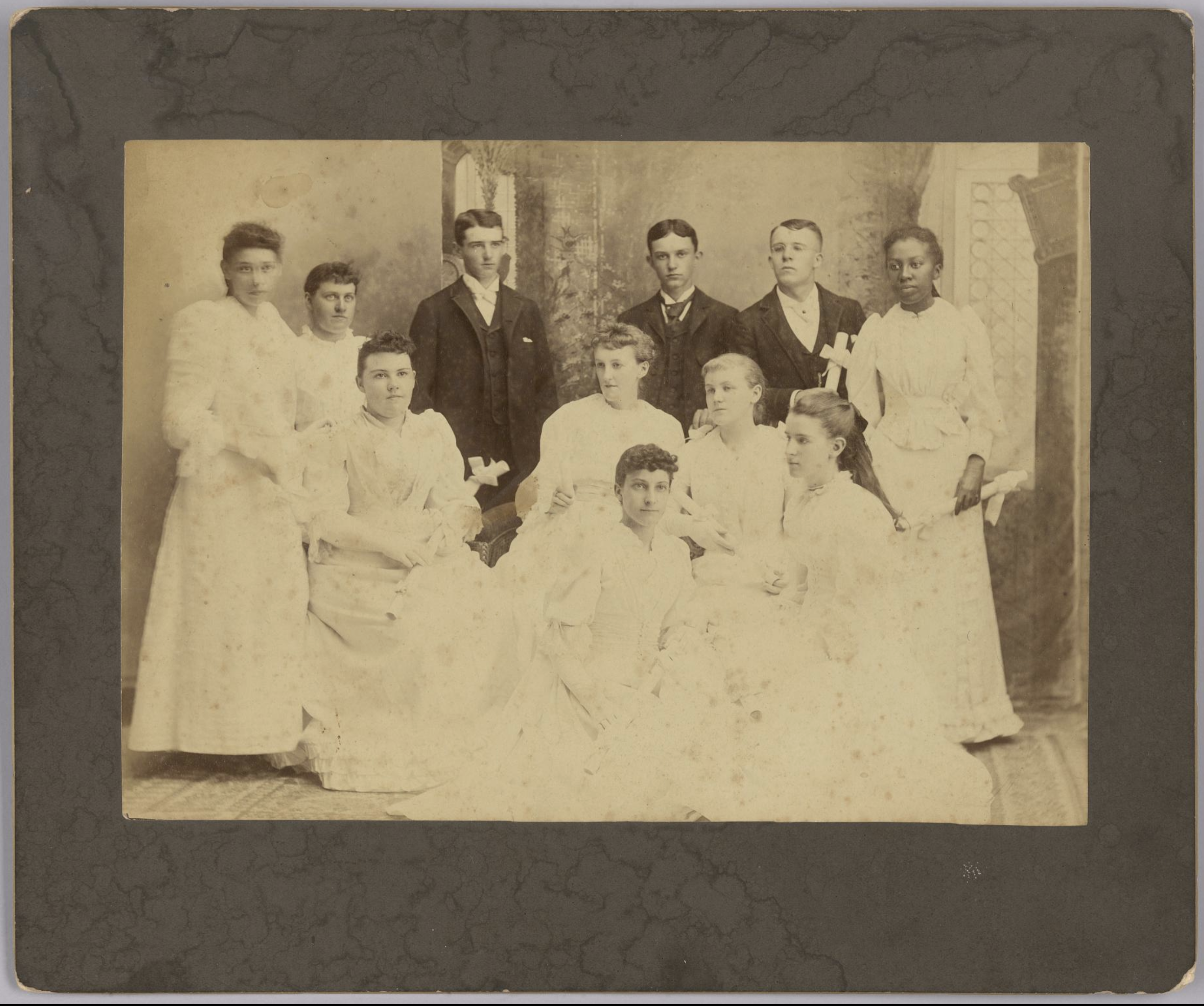 Original description from Smithsonian web site ( A black and white photograph of the Oberlin Academy Preparatory School Class of 1892. There are three (3) rows of students. The first row is one (1) girl in a white dress. Her hair is pulled back and she has curls in the front. She appears to be kneeling on the ground. The middle row contains four (4) girls in white dresses. They are sitting down. The girl on the far proper right side has her hair pulled back with curls in the front. The girl to her left has curly hair which is also pulled back. The two girls to her left do not have curls, but their hair is pulled back with a bow. The back row contains six (6) students. Three girls in white dresses and three boys in black suits. The boy in the middle is also wearing a black tie. There are two (2) girls on the proper right side. They have their hair pulled back with curls in the front. Eva Dyson is the female student on the proper left side. Her hair is pulled back as well. The boy to her right is wearing glasses. The photo was taken in an interior setting. A rug, a chair, and some plants can be seen. All of the students are holding what appears to be a diploma in their hands. The photograph is mounted on a black board. The board appears to be marbled because of age and some of the corners are torn. The image appears to have yellowed with age. There are some spots on the back of the board. There is also a diagonal white label on the proper left side of the board. It reads [1892 Graduation/10.- DC] in pencil. CREDIT LINE Collection of the Smithsonian National Museum of African American History and Culture, Gift of Christie Hammel